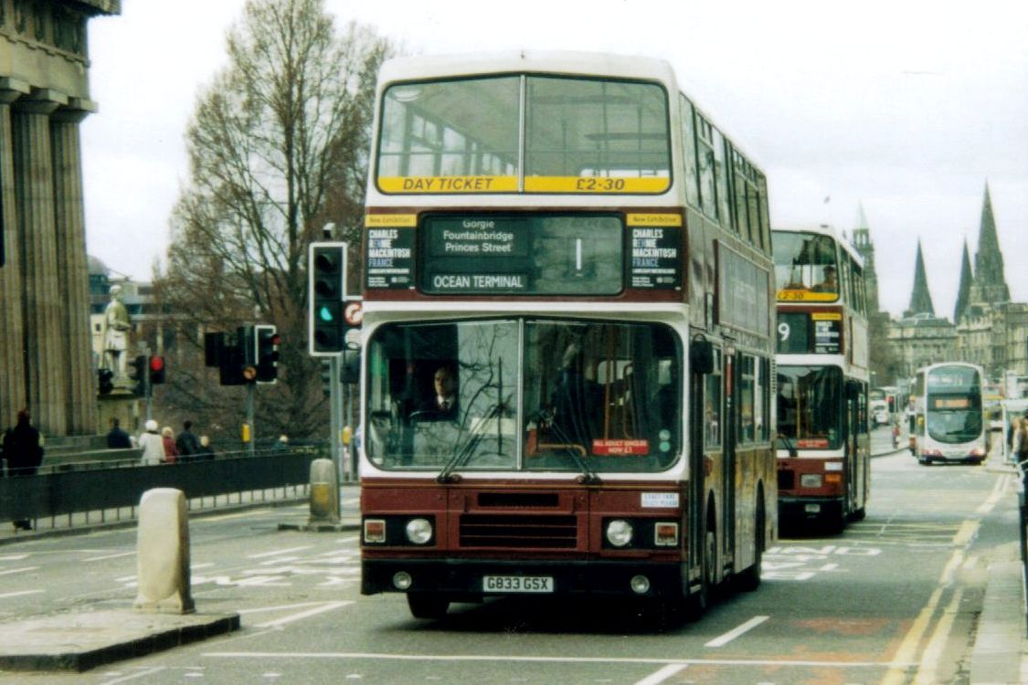 Two buses of Lothian Buses heading east on Princes Street in Edinburgh. Both wear the traditional Madder and White livery (symbolising the colour of blood from the "Heart of Midlothian"). The bus infront, 833 (reg. G833 GSX), a 1990 Leyland Olympian double-decker with dual-door Alexander RH bodywork, is on route 1 to Ocean Terminal, Edinburgh. Behind is a Volvo Olympian double-decker with dual-door Alexander Royale bodywork.